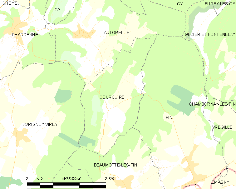 Map of French municipality